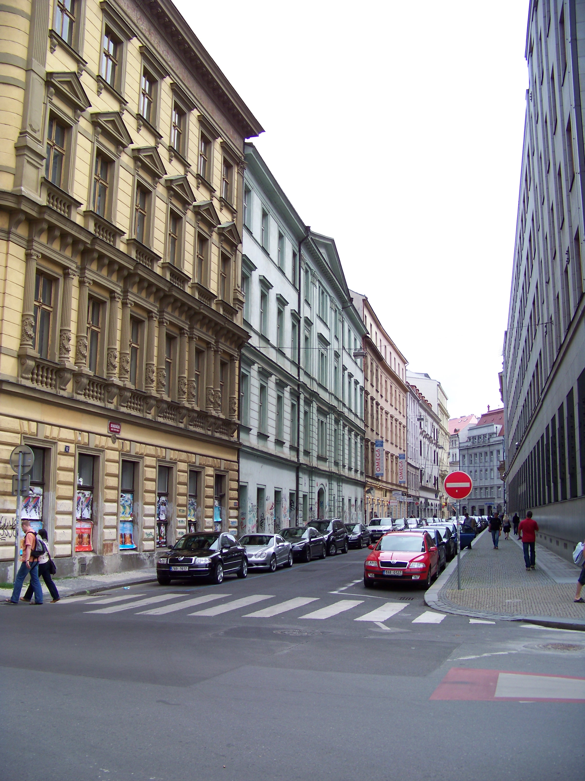 New Town, Prague, the Czech Republic. Senovážná street.